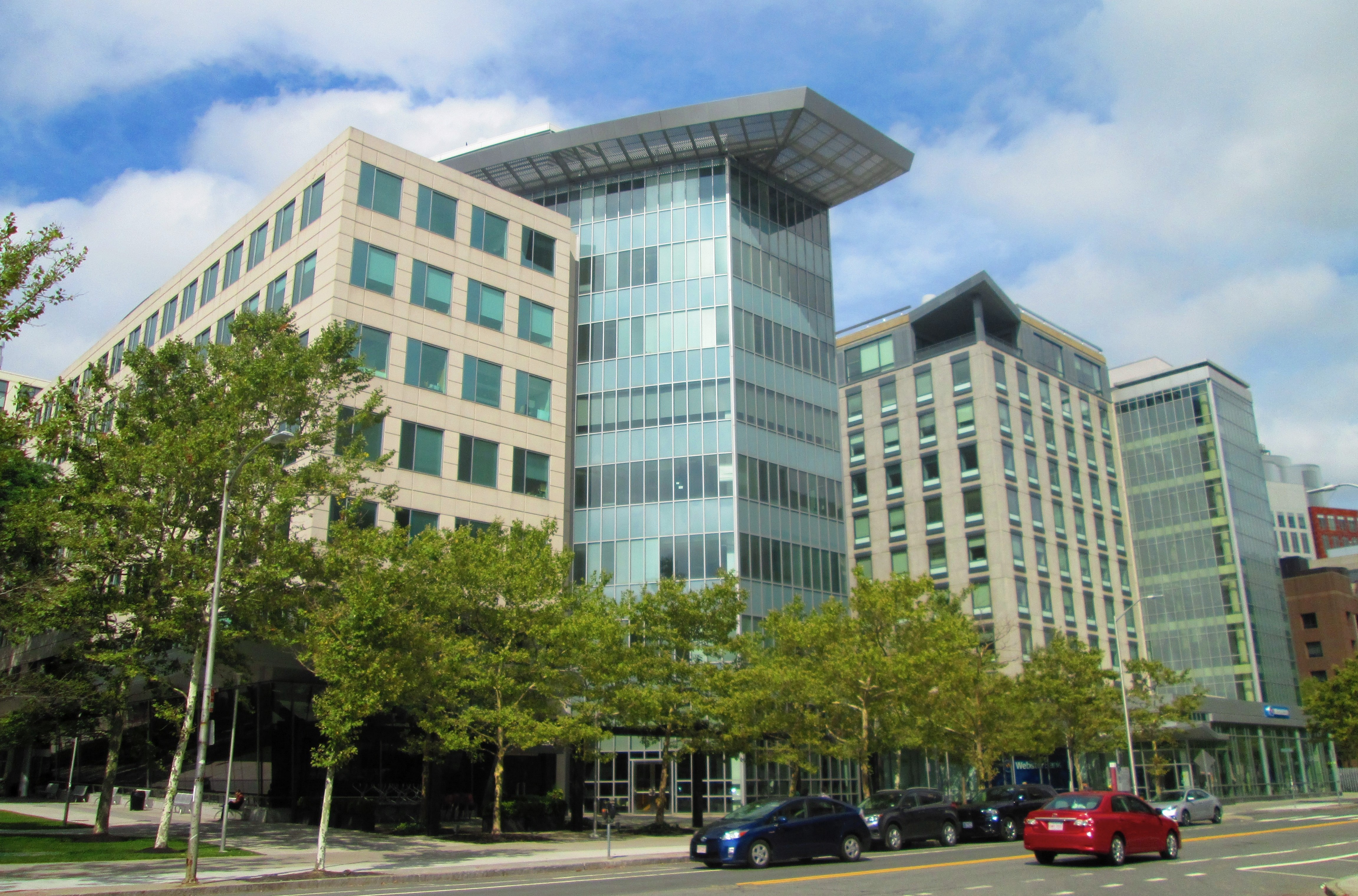 500 Technology Square (left), also known as MIT Building NE47, 300 Technology Square, also known as MIT Building NE45, and 100 Technology Square, which is not connected with MIT, are located on Main Street near the intersection with Portland Street in Cambridge, Massachusetts. They were all designed by Perkins & Will in the Modernist style. (Sources: Emporis: 500, 300 and 100)